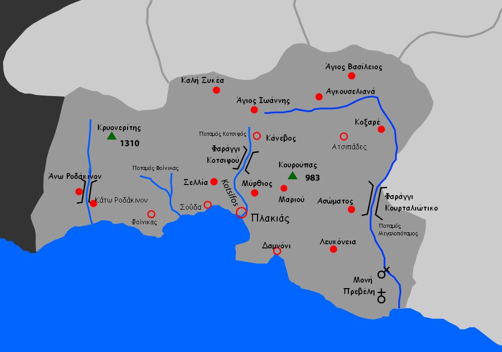 Map of the villages of Foinikas municipality (in Greek)